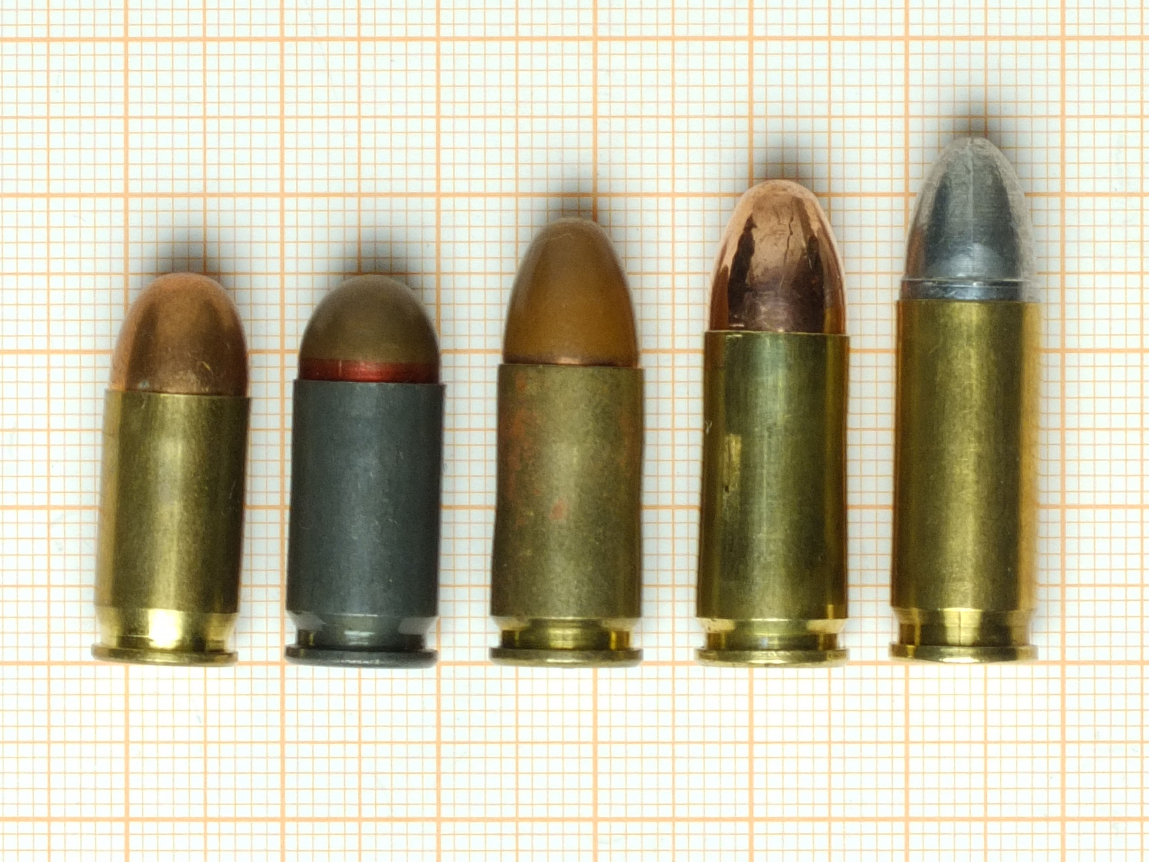 Cartridges 9x17mm, 9x18mm, 9x19mm, 9x21mm, 9x23mm